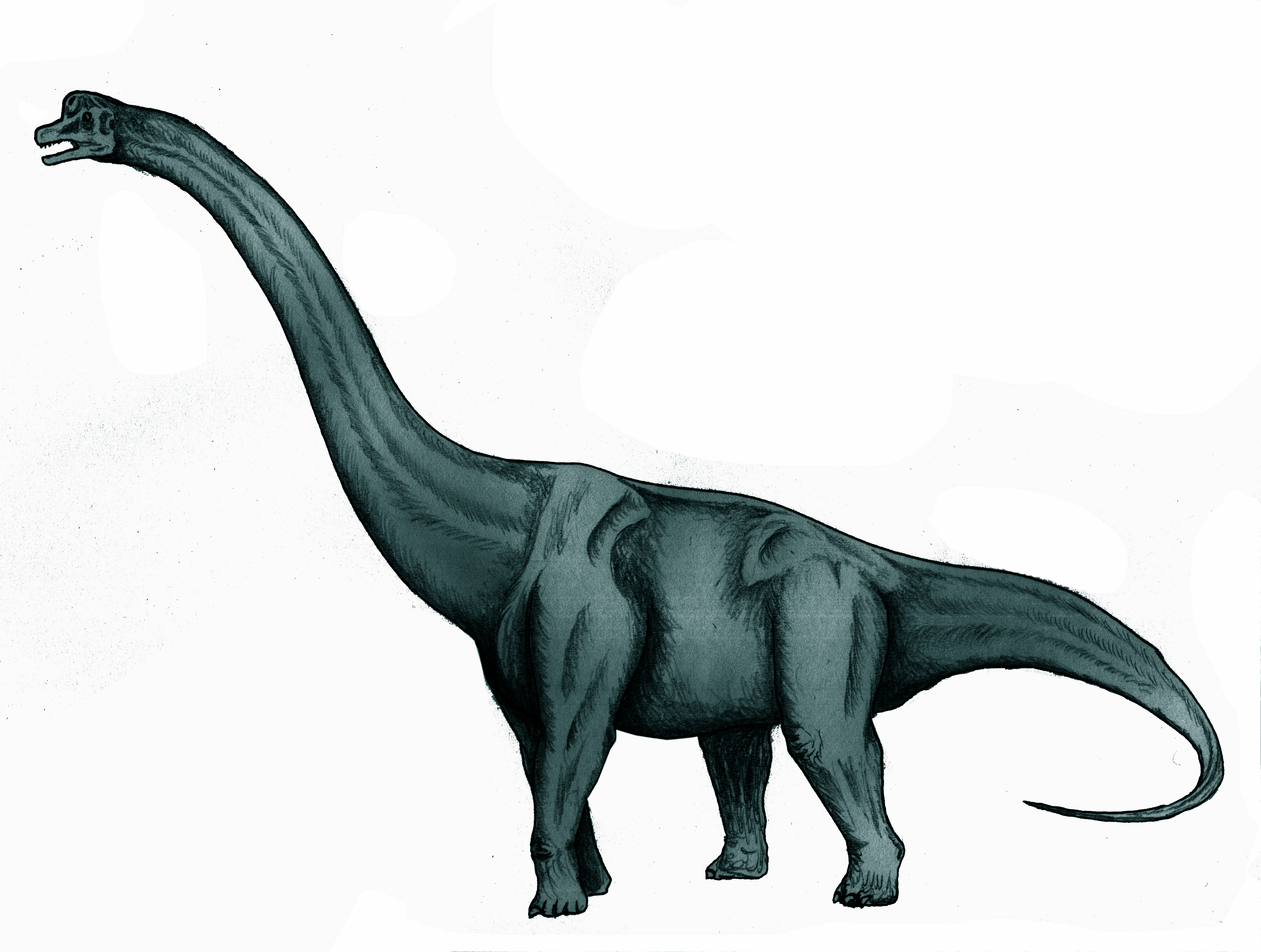 Restoration of Sauroposeidon proteles, a sauropod dinosaur